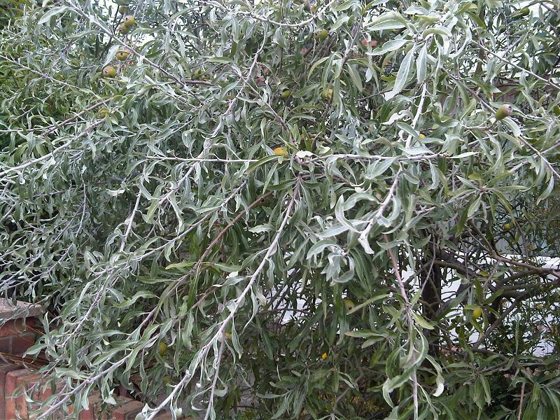 Willow-leafed Pear, Willowleaf Pear or Weeping Pear (Pyrus salicifolia) in Kew Gardens.